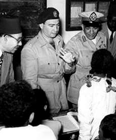 Muhammad Naguib end Khalid Muhyi al-Din. Egypt, 1954